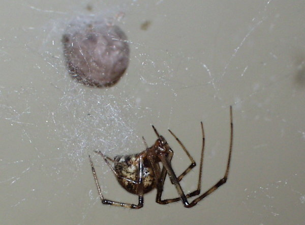 Photo of American common house spider, Achaearanea tepidariorum by Patrick Edwin Moran. North Carolina, USA. Category:Achaearanea